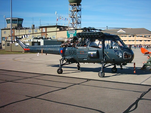 Taken by Dave Taskis at the September 2005 Yeovilton Air Day, Somerset, UK.